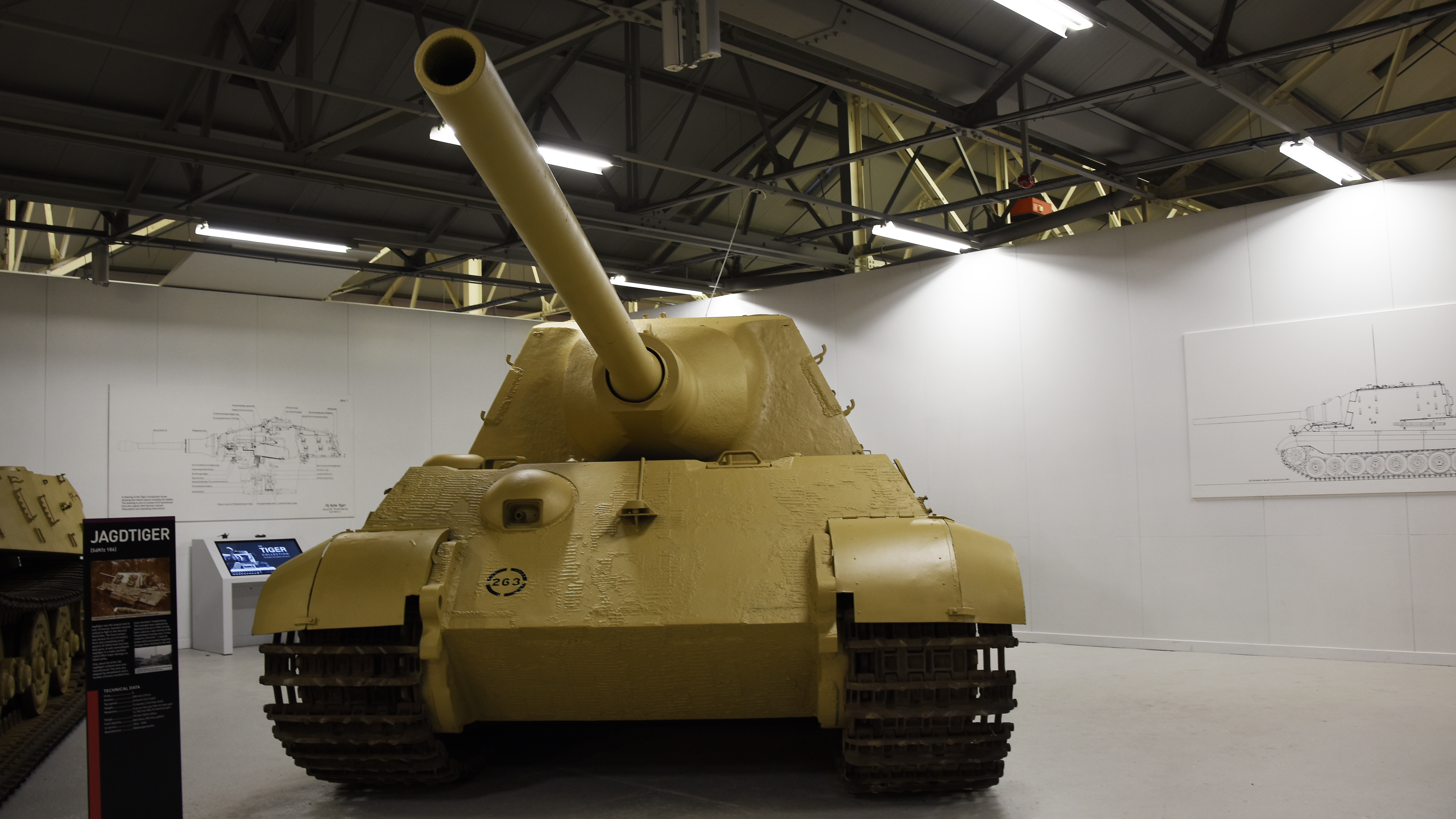 Jagdtiger - Tank Museum Bovington 19-05-2017. Painted in RAL 7028, known as Dunkelgelb.